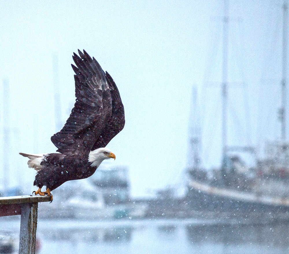 Eagle Take off